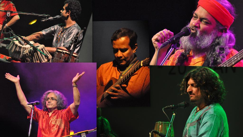 The new look Indian Ocean Performing at the Indo German Urban mela